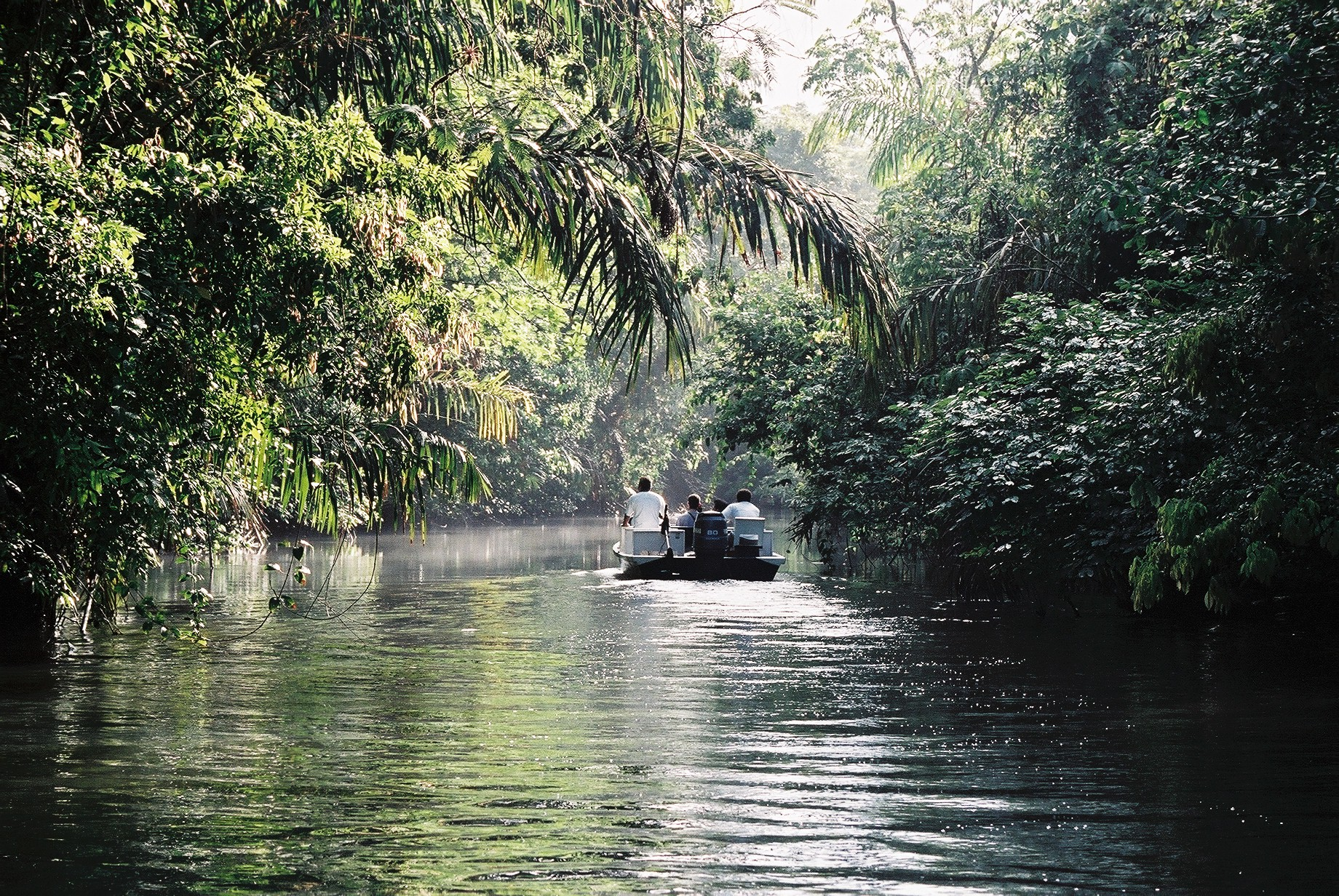 Boat trip into the "canales de Parque Nacional Tortuguero" and tropical rain forest. In Tortuguero National Park, Limón Province, northeastern Costa Rica. In the Isthmian-Atlantic moist forest ecoregion, of the Tropical and subtropical moist broadleaf forests biome.